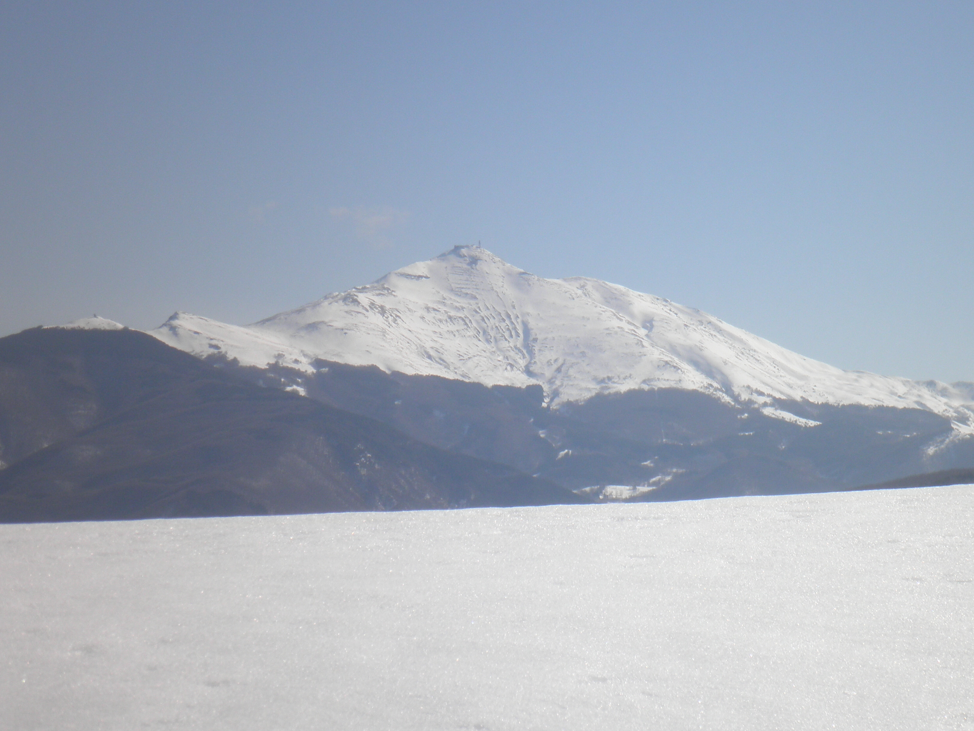 The Cimone Mountain seen by the sky-area of S.Annna Pelago, on the Appennins, on March 2011.